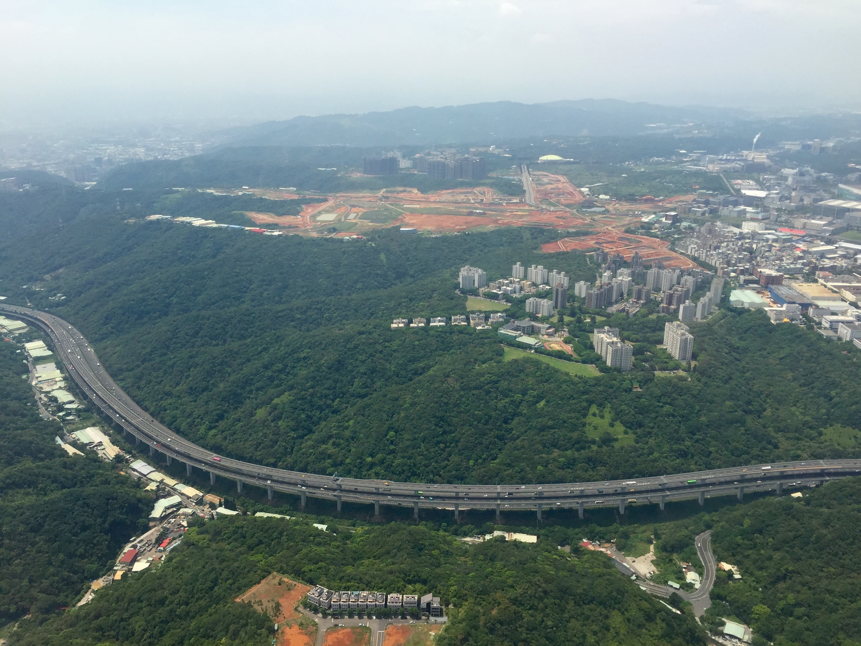 Taiwan Freeway No. 1, Taishan section